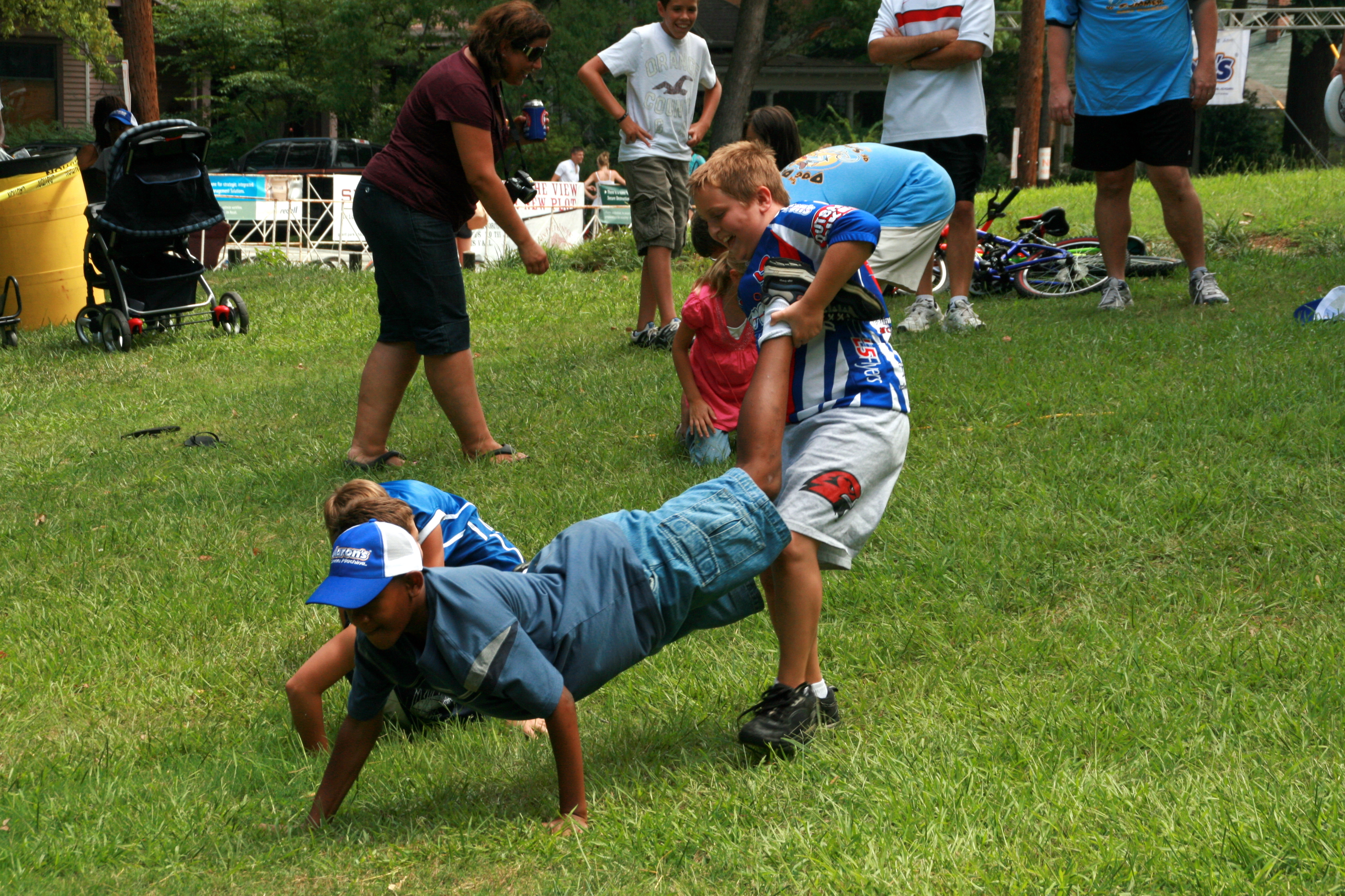 A wheelbarrow race in Grant Park, Chicago